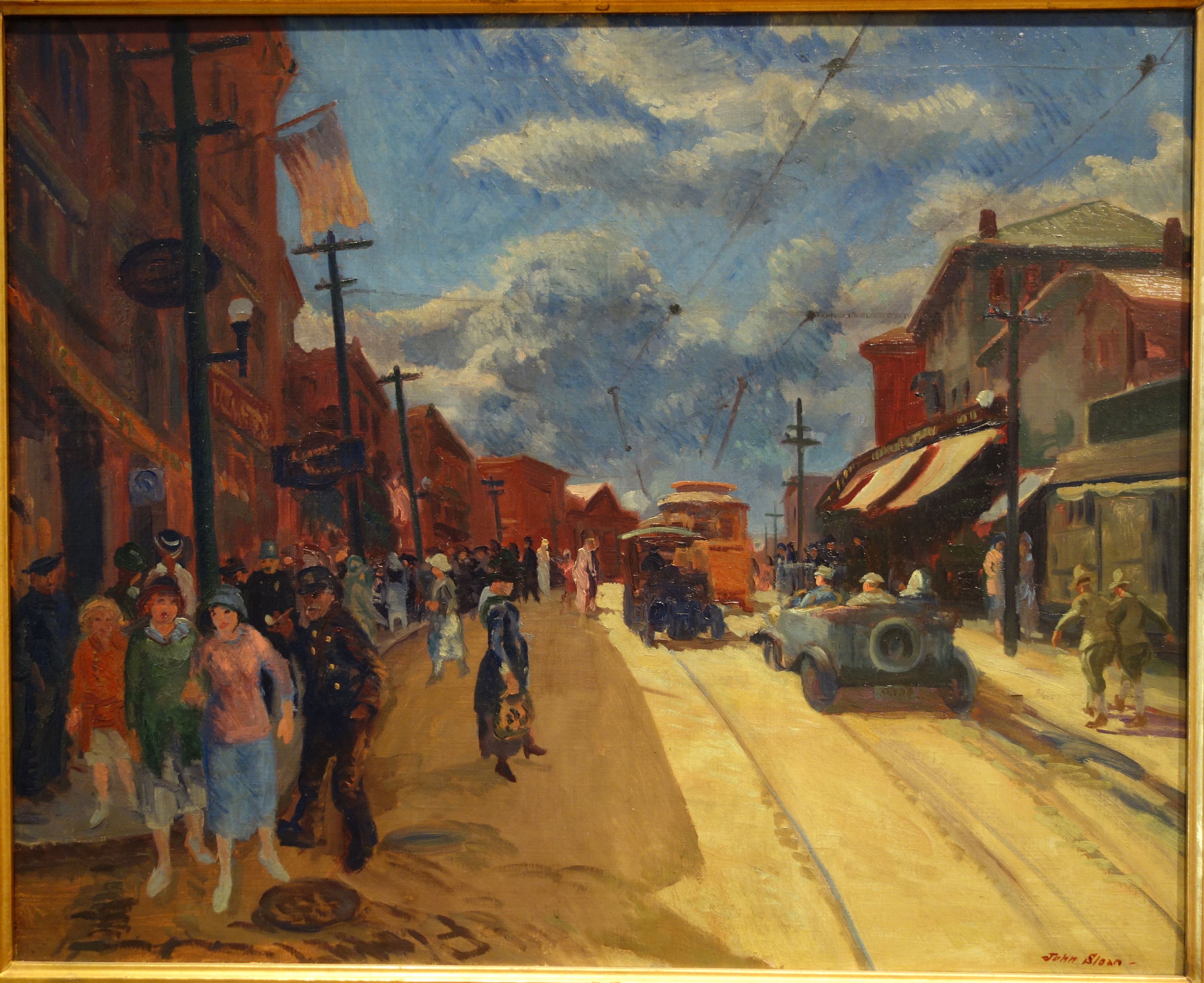 Main Street, Gloucester